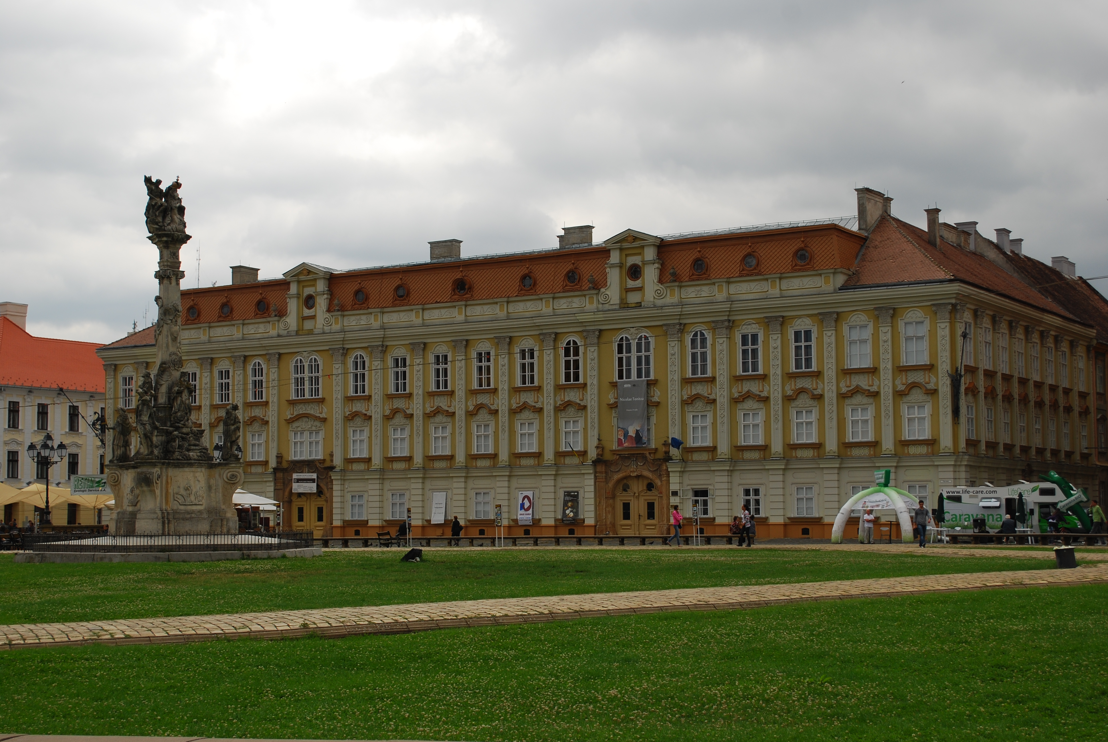 The Baroque Palace in Timişoara, RomaniaRomână: Palatul Baroc din Timişoara, România